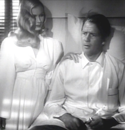 Cropped screenshot of Veronica Lake and Joel McCrea from Sullivan's Travels.